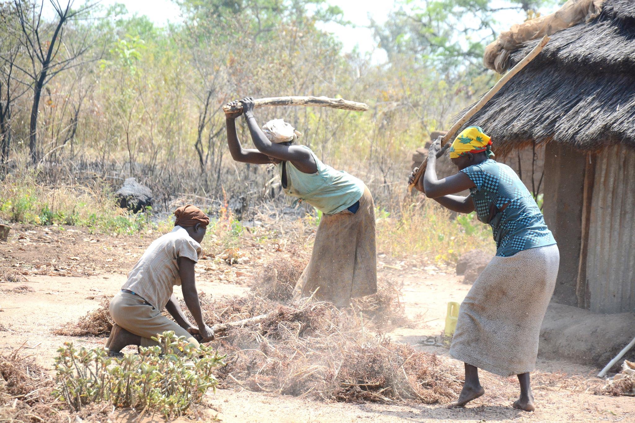 Women pounding Soghum in Pader in the afternoon This is an image of "African people at work" from Uganda